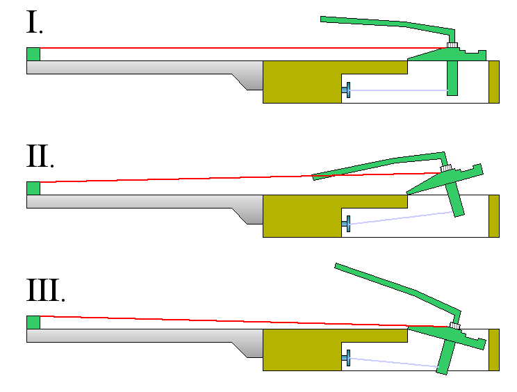 The basic principles of the action of a double-locking floating bridge are shown in this simple illustration. Its proportions are exaggerated to demonstrate the effect.